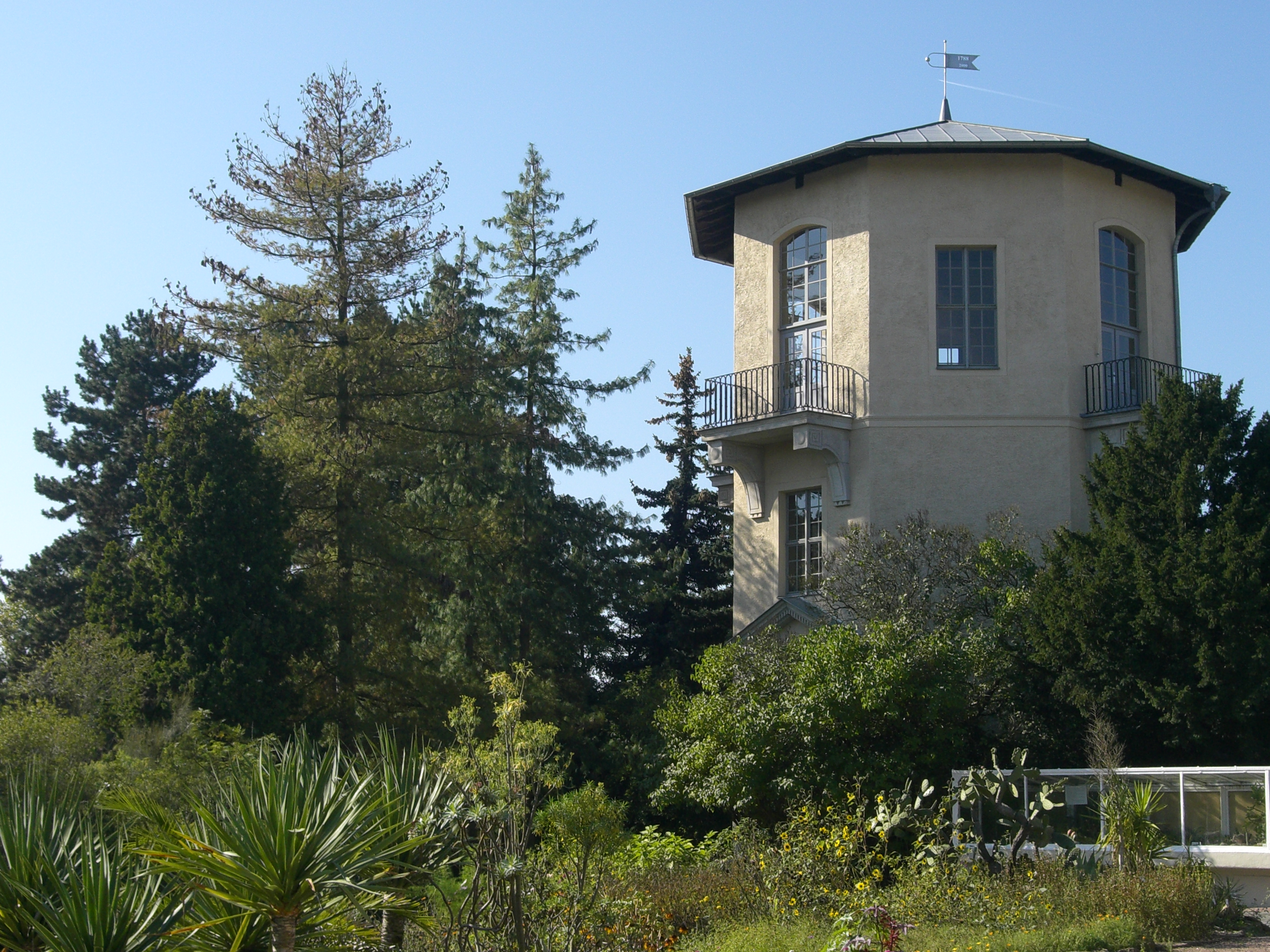 Sternwarte Halle (Halle Observatory) designed by Carl Gotthard Langhans 1788, Halle, Saxony-Anhalt, Germany